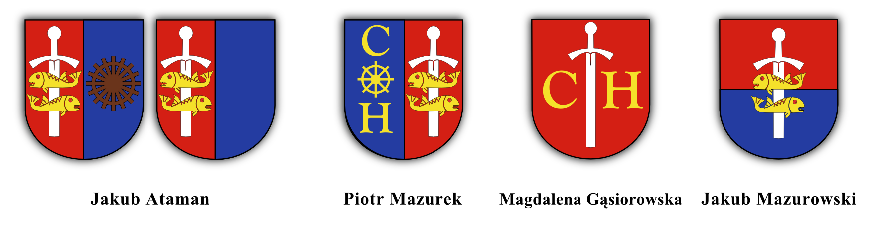 Propositions submited in the year of 2000 to the competition for the coat of arms of Chylonia. Coats of arms patterned upon "Przegląd Chyloński" and